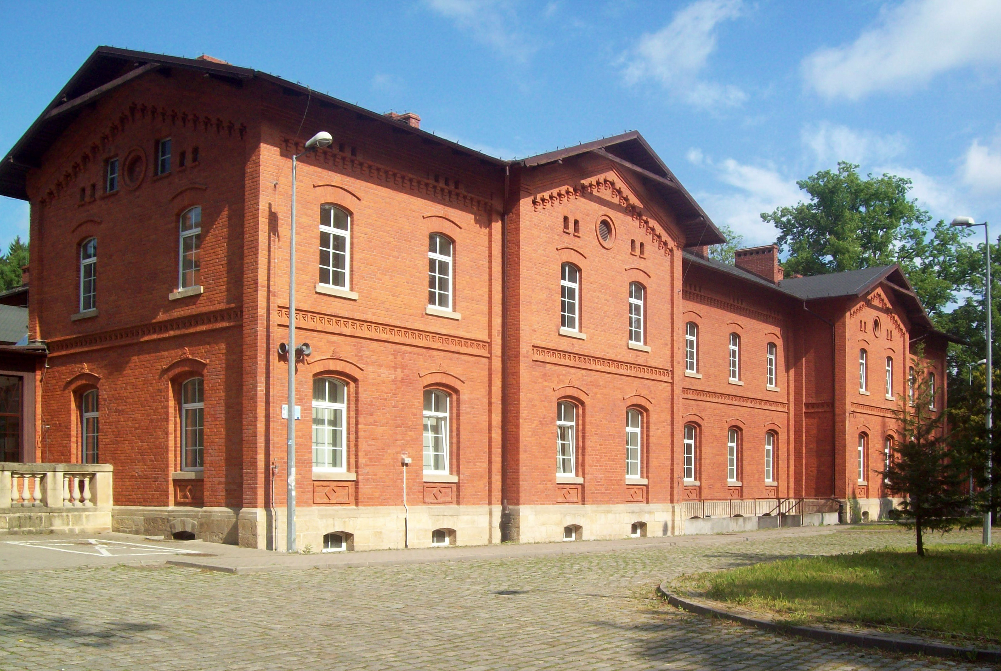 Stacja kolejowa w Międzylesiu